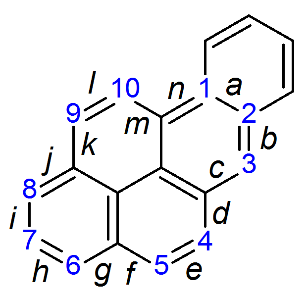 Chemical structure of Benzo(a)pyrene showing numbering and bond locations according to IUPAC nomenclature.